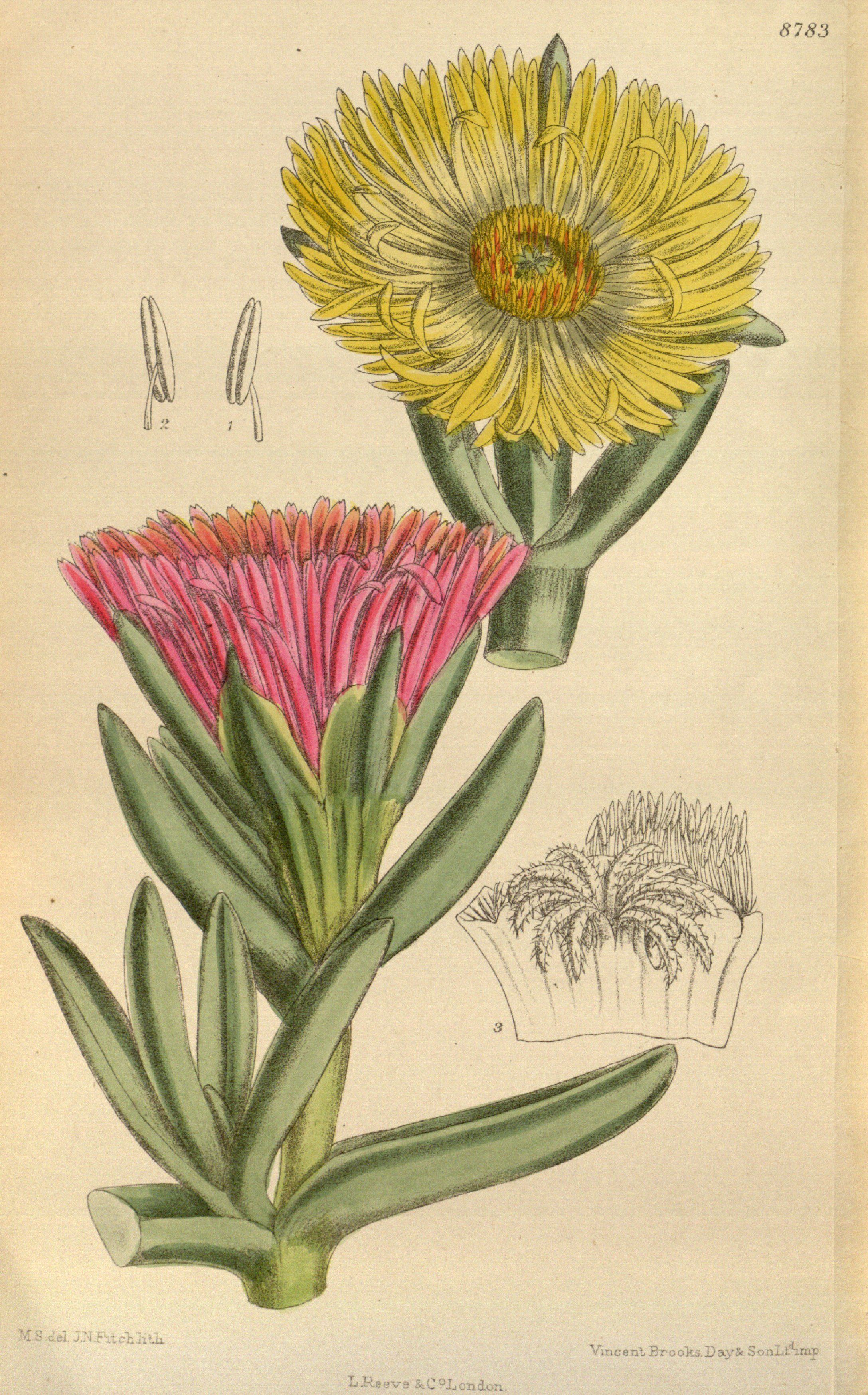 Mesembryanthemum edule (= Carpobrotus edulis), Aizoaceae